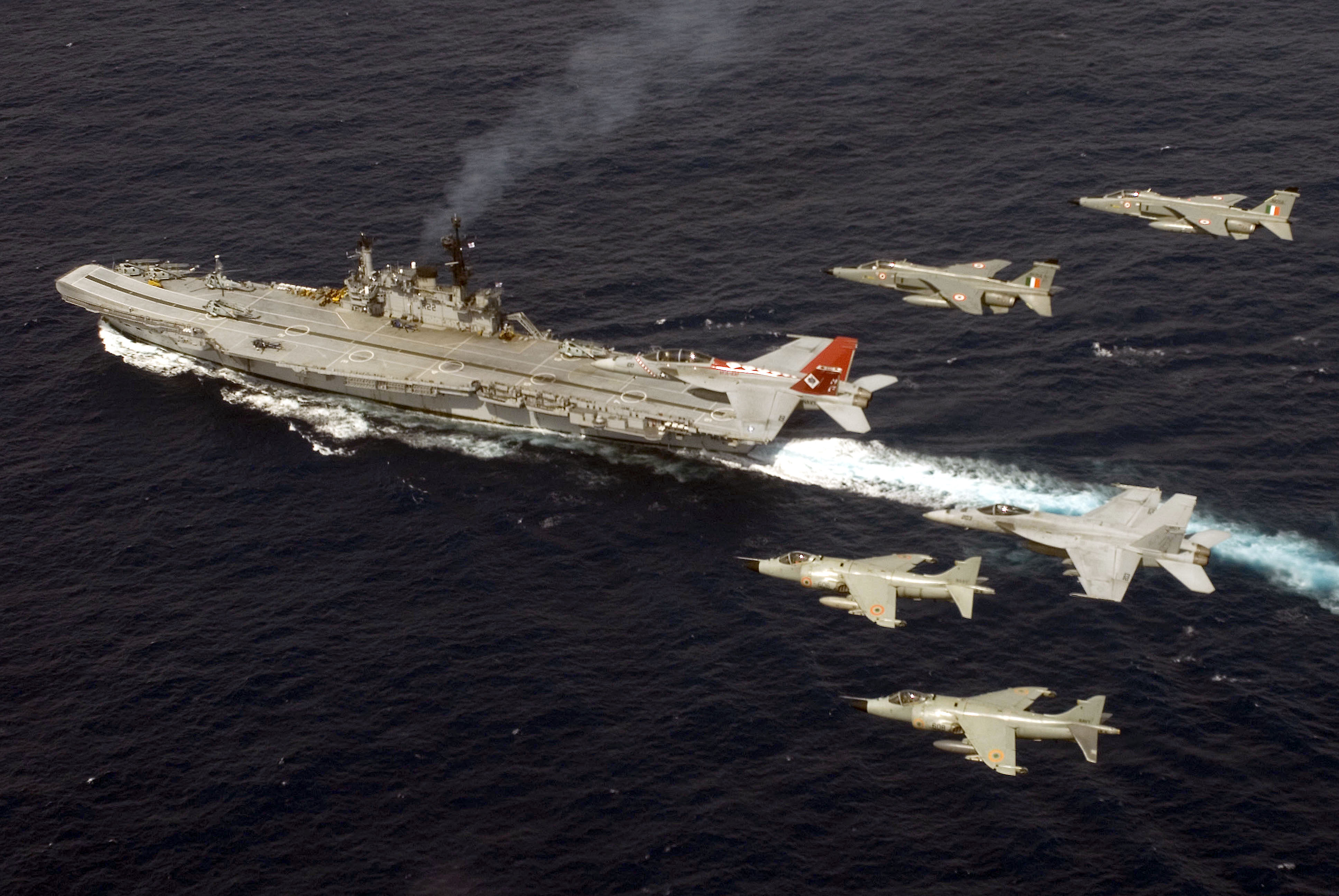 BAY OF BENGAL (Sept. 7, 2007) - An F/A-18F Super Hornet assigned to the Strike Fighter Squadron 102, left, and an F/A-18E Super Hornet from Strike Fighter Squadron 27, foreground, fly in formation with two Indian Navy Sea Harriers, bottom, and two Indian Air Force Jaguars, right, over Indian Navy aircraft carrier INS Viraat (R 22) during exercise Malabar 07-2. More than 20,000 personnel from the navies of the United States, Australia, India, Japan and Singapore are participating in the exercise. U.S. Navy photo by Mass Communication Specialist 2nd Class Jarod Hodge (RELEASED)